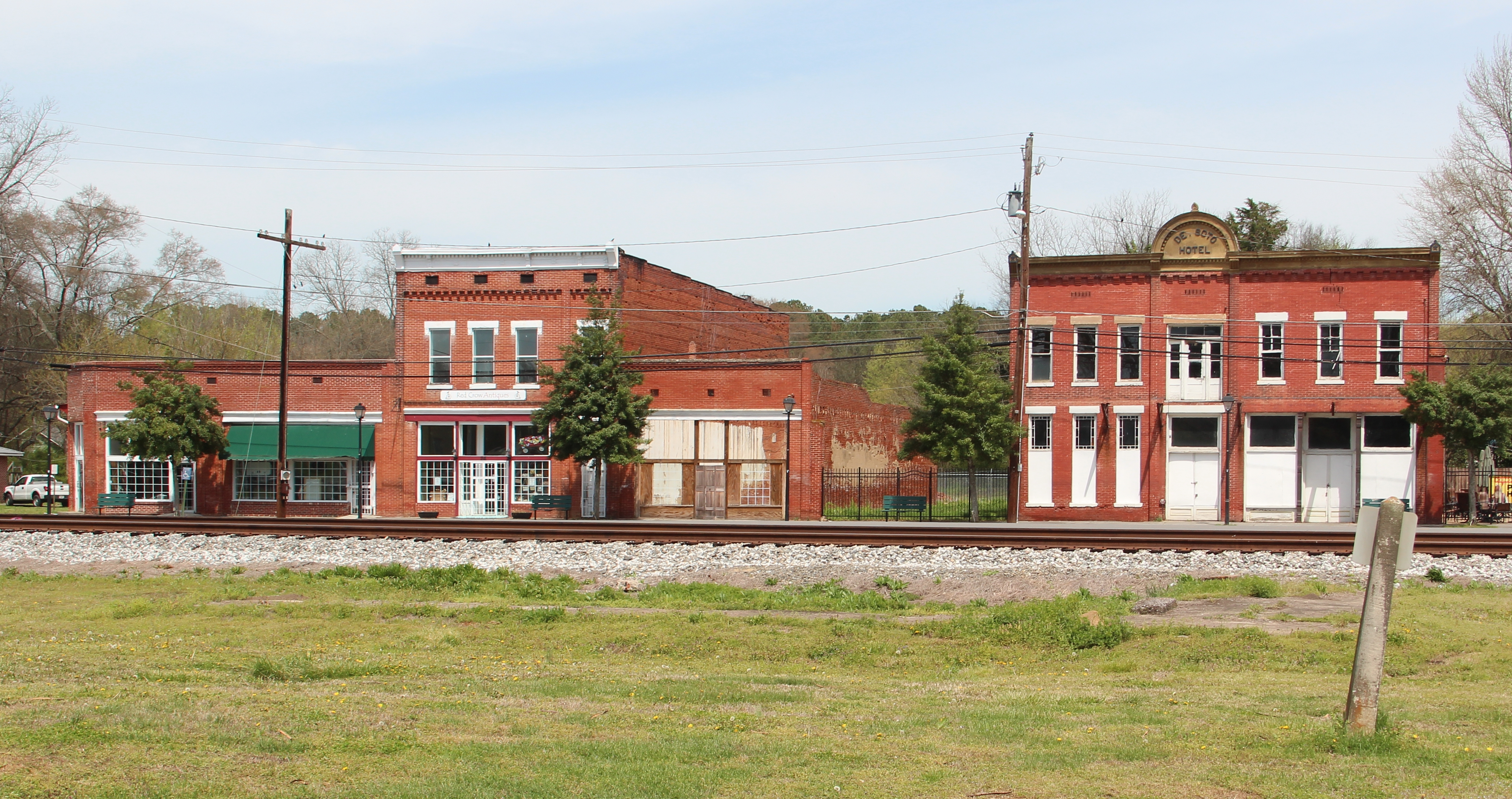 Kingston, Georgia historical district